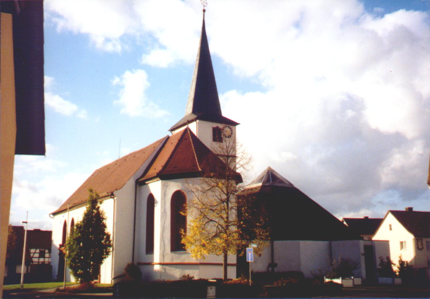 St.Peter&Paul Church in Arnshausen, a quarter of the German spa town of Bad Kissingen in Lower Franconia.